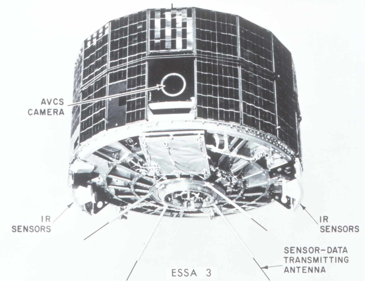 ESSA 3 satellite launched October 2, 1966. Note side mounting of camera as opposed to bottom mount on earlier TIROS satellites.